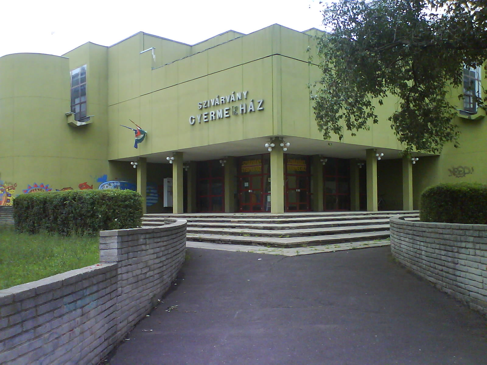 The building of Szivarvany gyermekhaz in Uranvaros, Pécs.